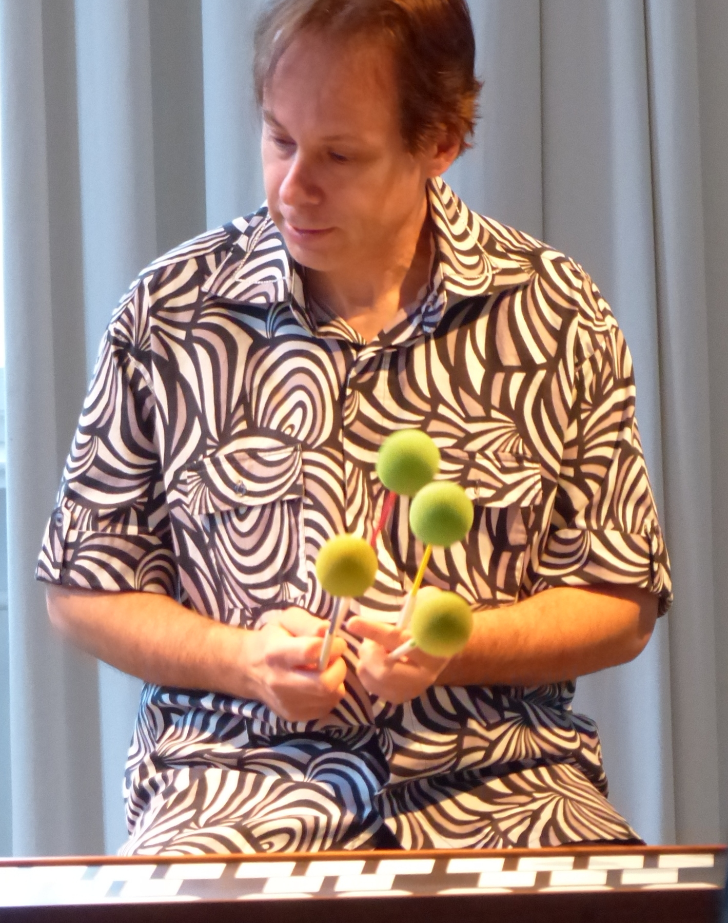 Konzert B.E.N.K., Künstlerhaus Schloß Balmoral, Bad Ems. Lukas Ligeti, electronic marimbaphone